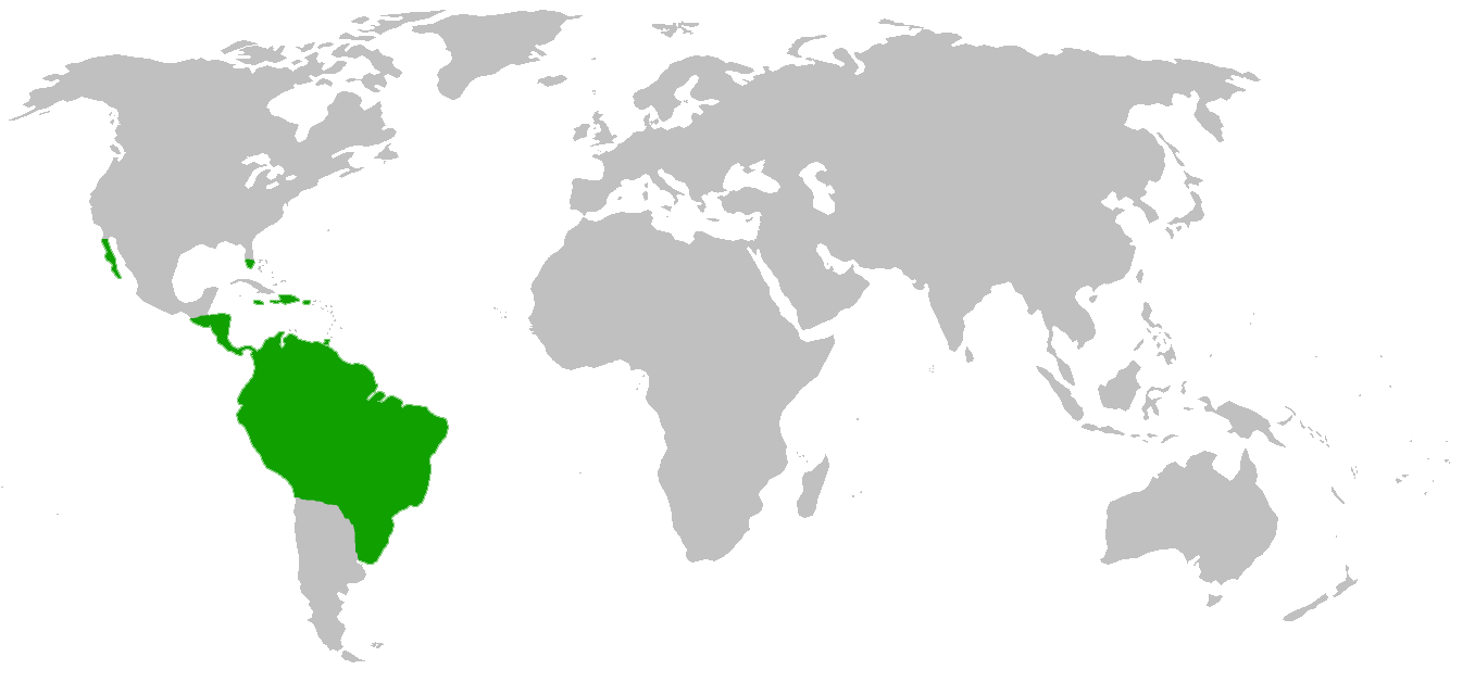 Distrubution of Aviculariinae. (Avicularia, Ephebopus, Pachistopelma, Psalmopoeus, Tapinauchenius) Schmidt, 2003